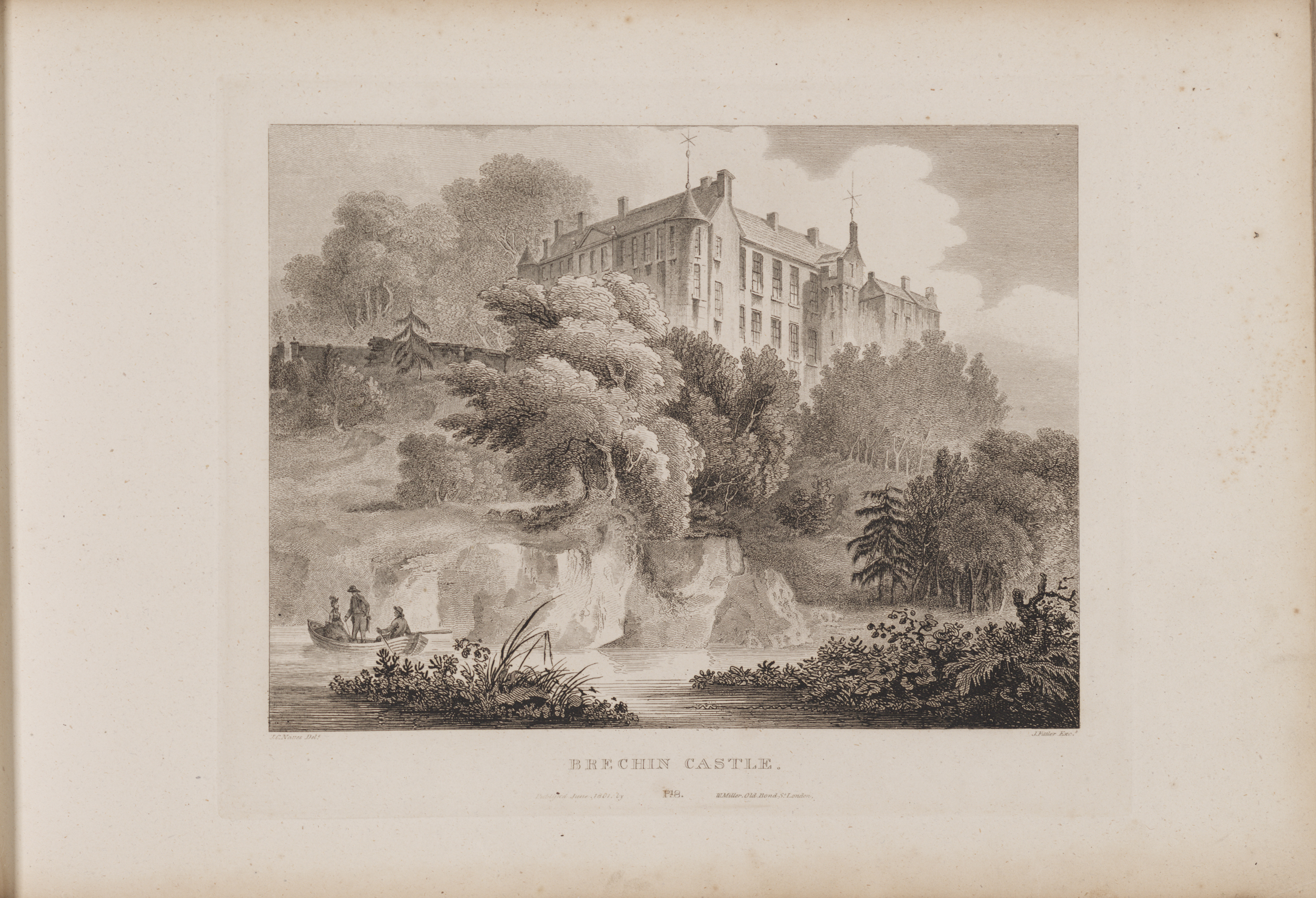 Plate VIII/b - John Claude Nattes made drawings of suitable scenes on the spot; etchings are by James Fittler. - John Claude Nattes made drawings of suitable scenes on the spot; etchings are by James Fittler.